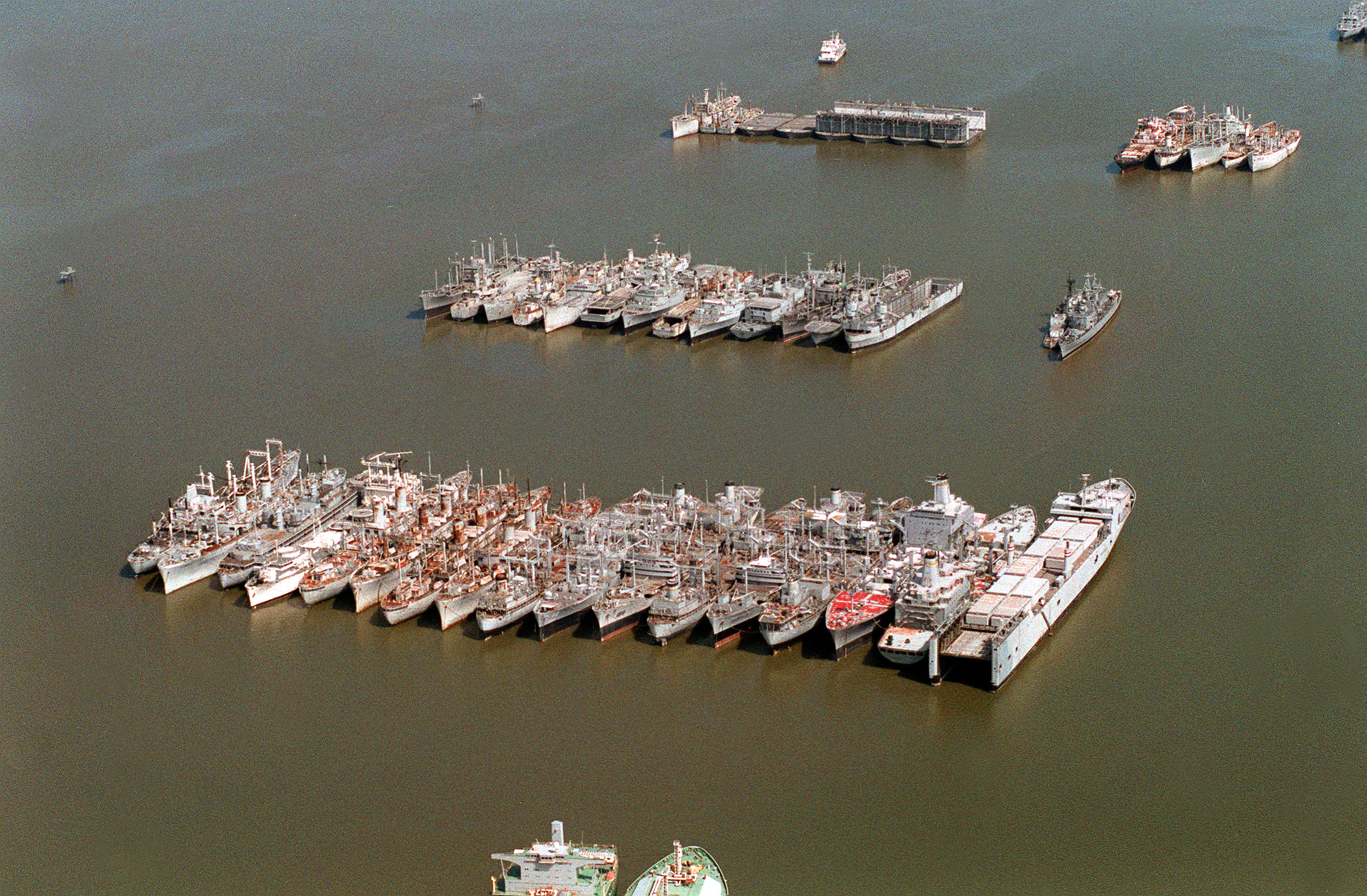 An aerial view of a portion of the U.S. James River Reserve Fleet moored near Fort Eurtis, Virginia (USA). The groups of ships, Army vessels, and vessel under maritime charter were under the control of the Department of Transportation's Maritime Commision.